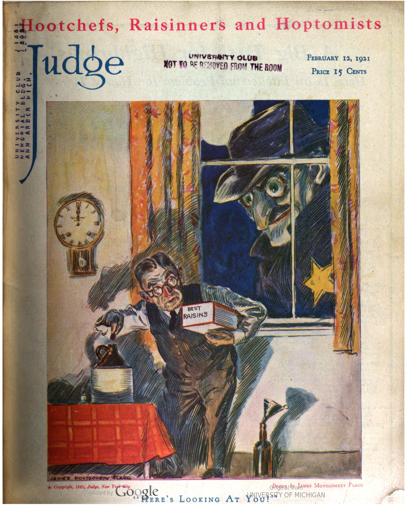 Judge Magazine Cover (12 Feb 1921)